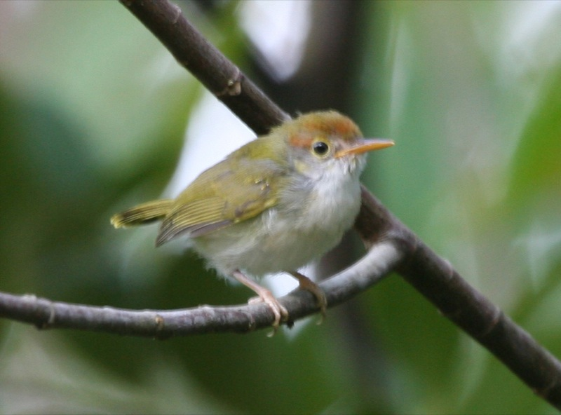 Dark-necked Tailorbird - juvenile Orthotomus atrogularis Location: Batam, Indonesia June 21, 2005 Distribution: . Distribution, ssp , Malay peninsula, Sumatra, most of Borneo .